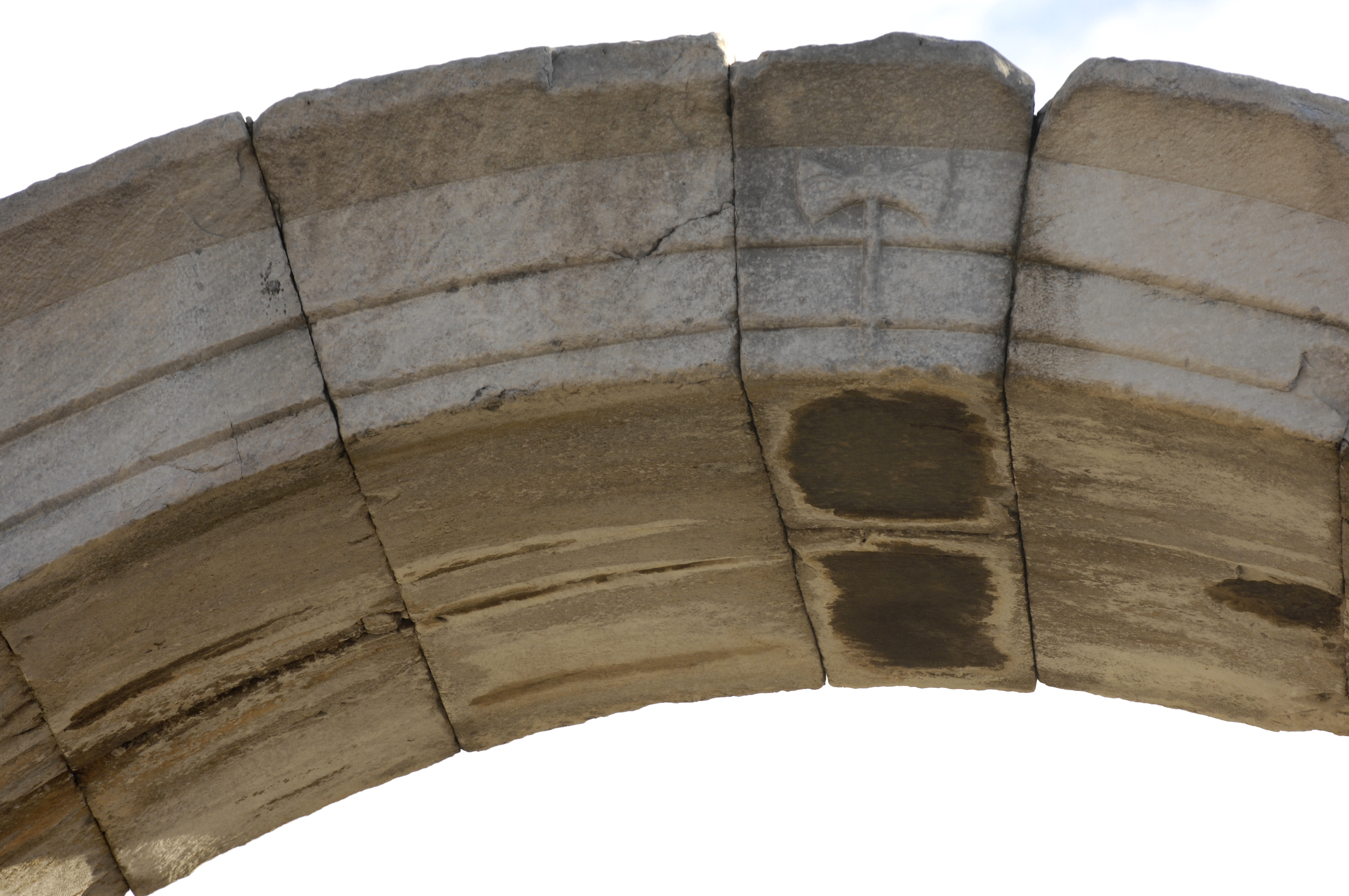 The Baltalı Kapı or Gate with Axe. It is named after the double bladed axe that is seen a lot in this area, most prominently figuring in Labranda with its Zeus Labryandus (with axe, again). The one on this gate is almost in the top of the arch, on the west side.